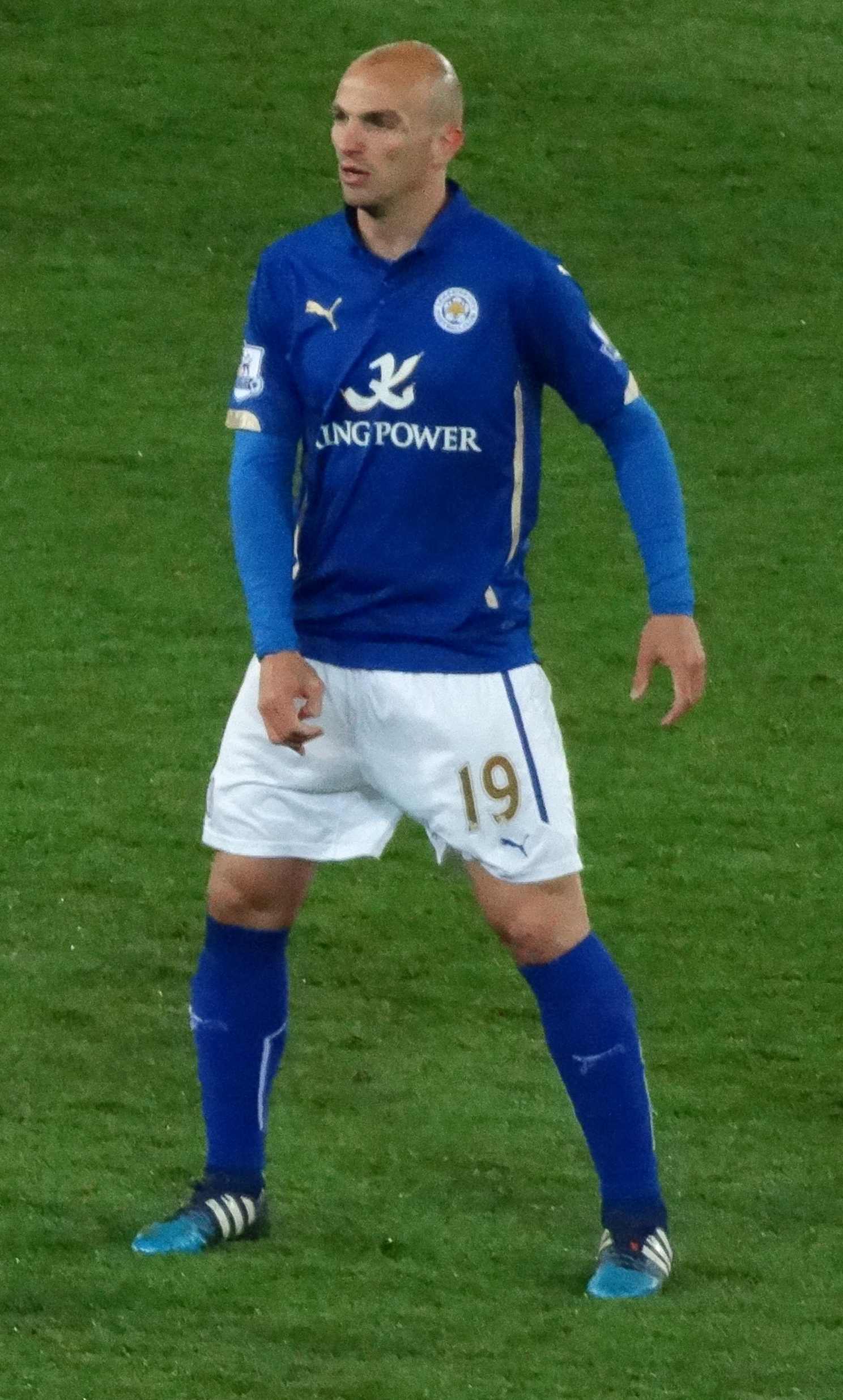 Esteban Cambiasso playing for Leicester City against Chelsea on 29 April 2015